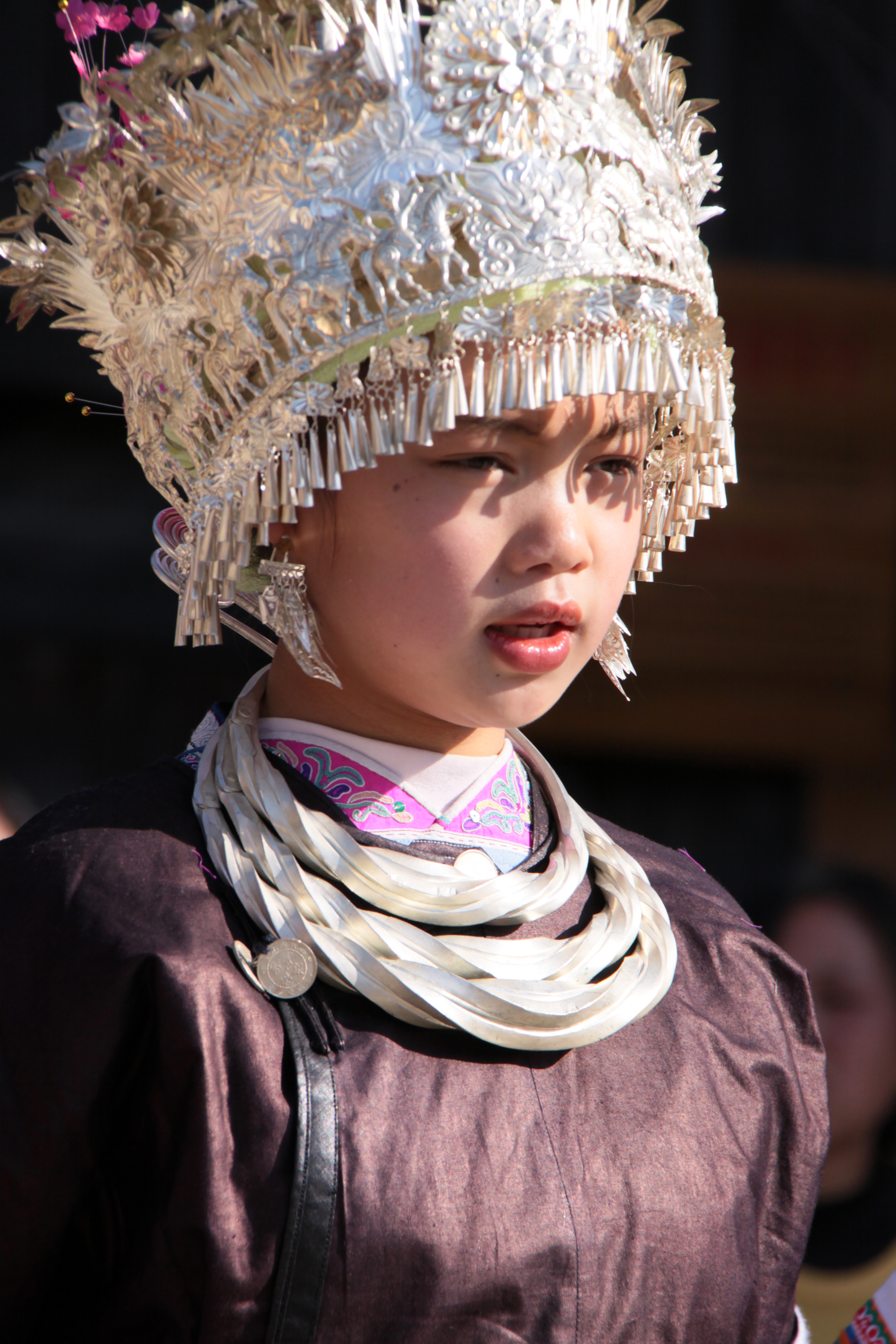 china, guizhou, young girl dhong during new year feast